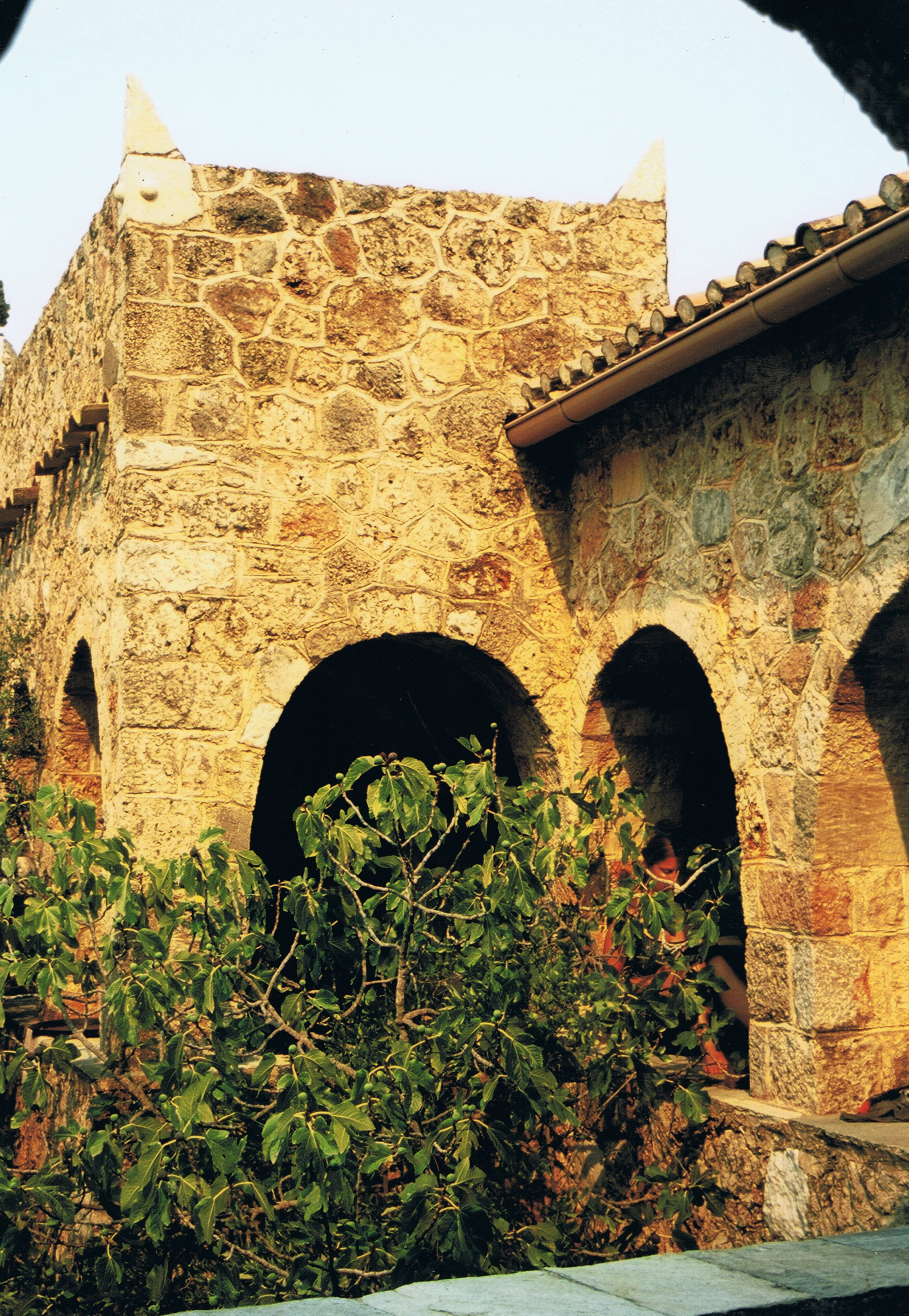 Photo (by me, R. de Salis, Rodolph (talk) 19:29, 26 November 2014 (UTC)) of part of Sir Paddy's villa at Kalamitsi, Kardamyli.